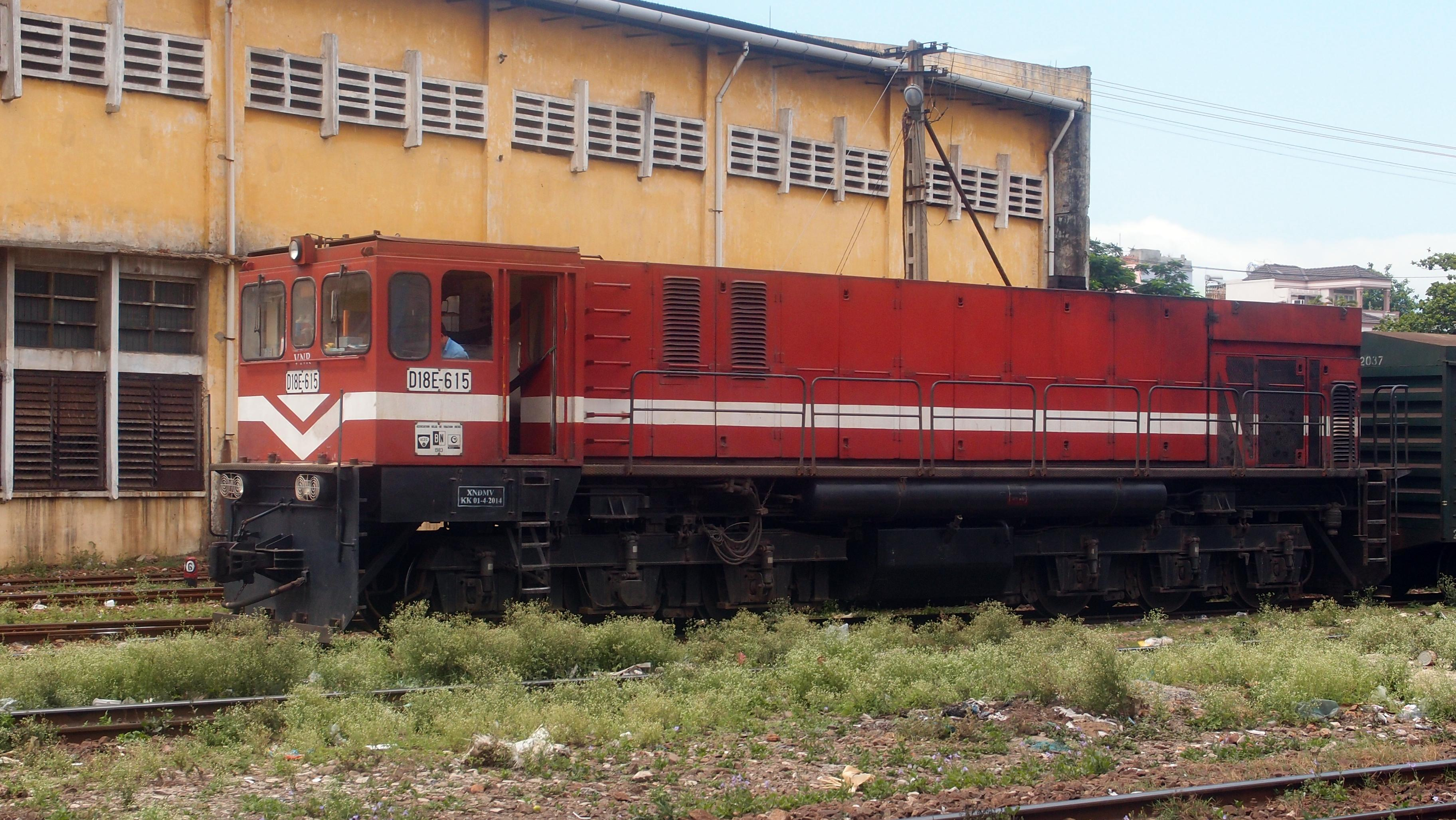 Vietnam Railways diesel-electric locomotive D18E-615 in Đà Nẵng station with a freight train, 2014-05-07.